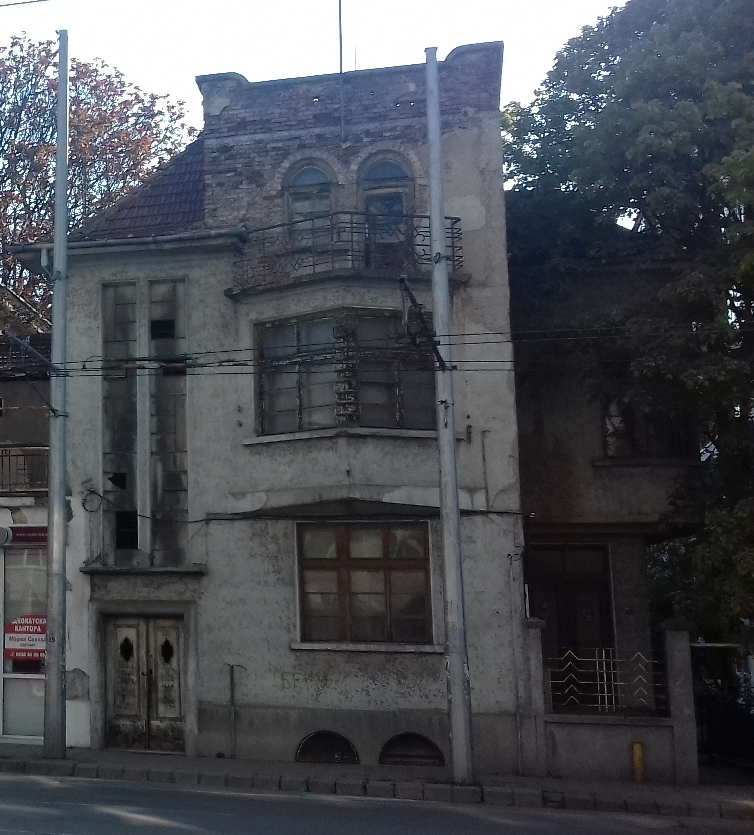 Kapitanovi House, Stara Zagora, Bulgaria